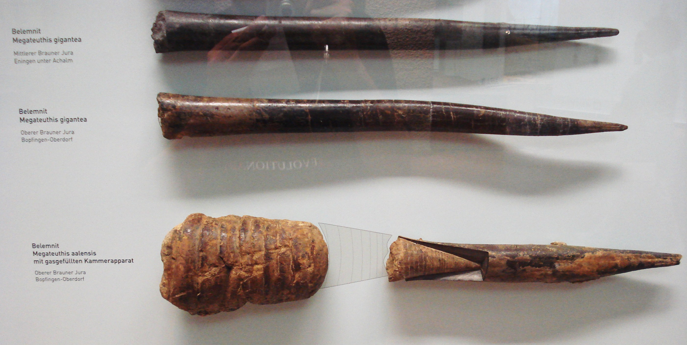 Fossils of Megateuthis gigantea and Megateuthis aalinsis